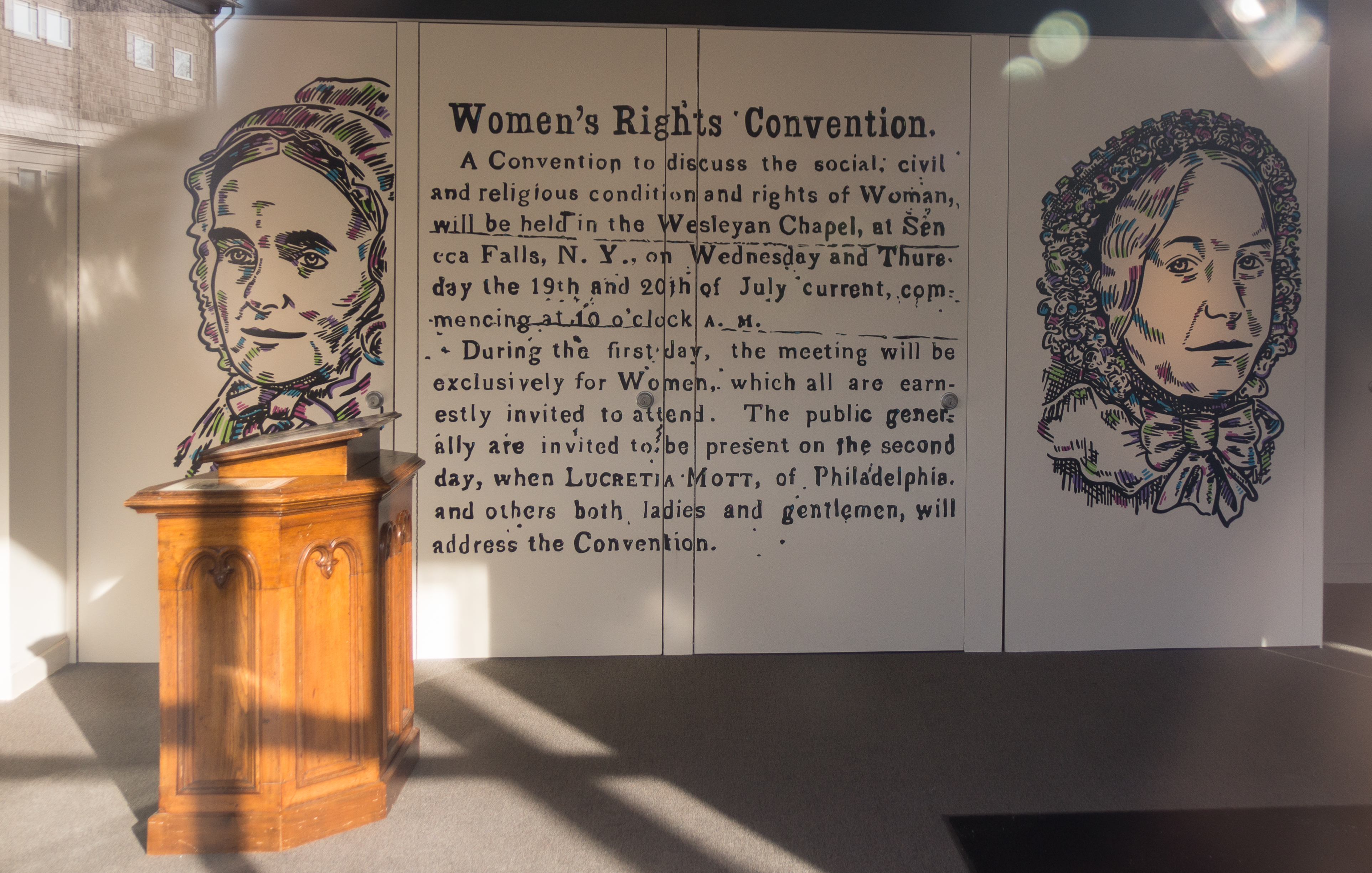 Women's Rights Convention #WomensMarch #WomensMarch2018 #SenecaFalls #NY